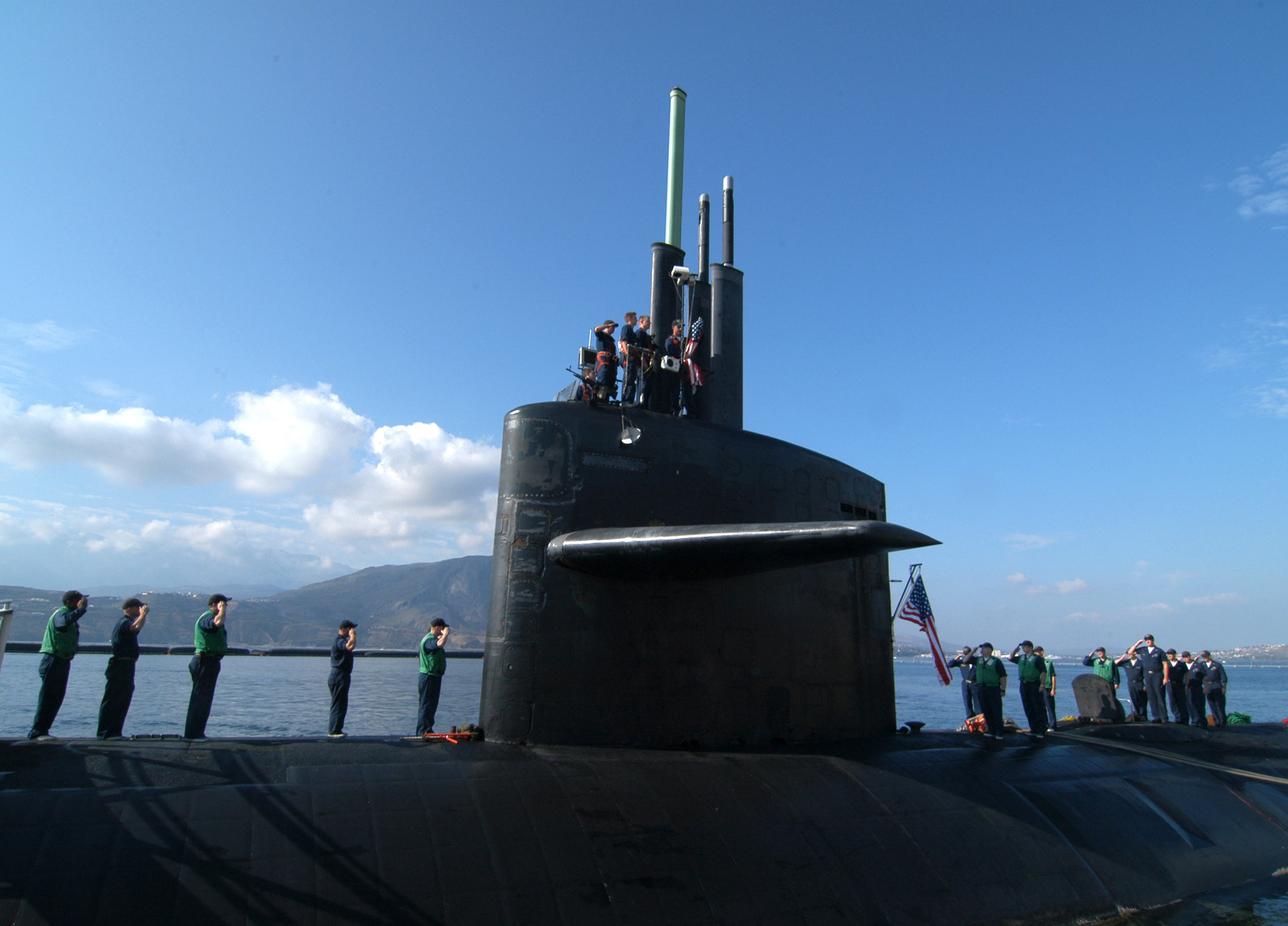 Souda Bay, Crete, Greece (Oct. 14, 2005) – Crew members aboard the Los Angeles-class fast attack submarine USS Philadelphia (SSN 690) salute the national ensign as the "shift colors" order is carried out upon their arrival at the Marathi NATO Pier Facility in Souda Bay, Greece, for a routine port visit. Philadelphia is homeported in Groton, Conn., and began a scheduled deployment in June 2005. U.S. Navy photo by Mr. Paul Farley (RELEASED)